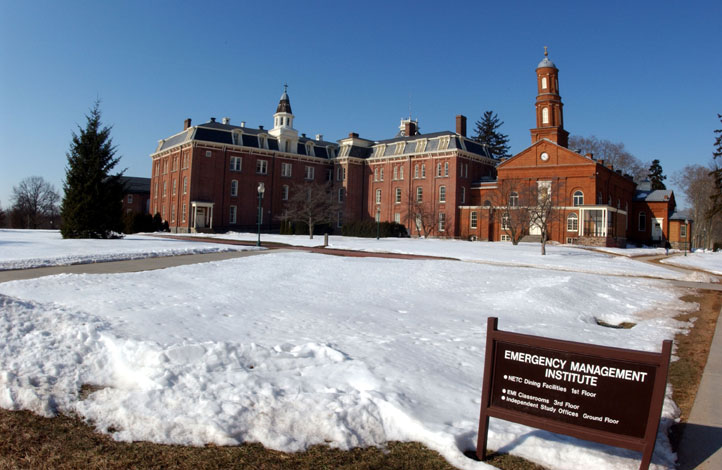 Emmitsburg, MD, March 10, 2003 -- The campus of FEMA's National Emergency Training Center, located in Emmitsburg, Md., offers a beautiful environment for first responders, emergency managers and educators to learn state-of-the-art disaster management and response. Photo by Jocelyn Augustino/FEMA News Photo